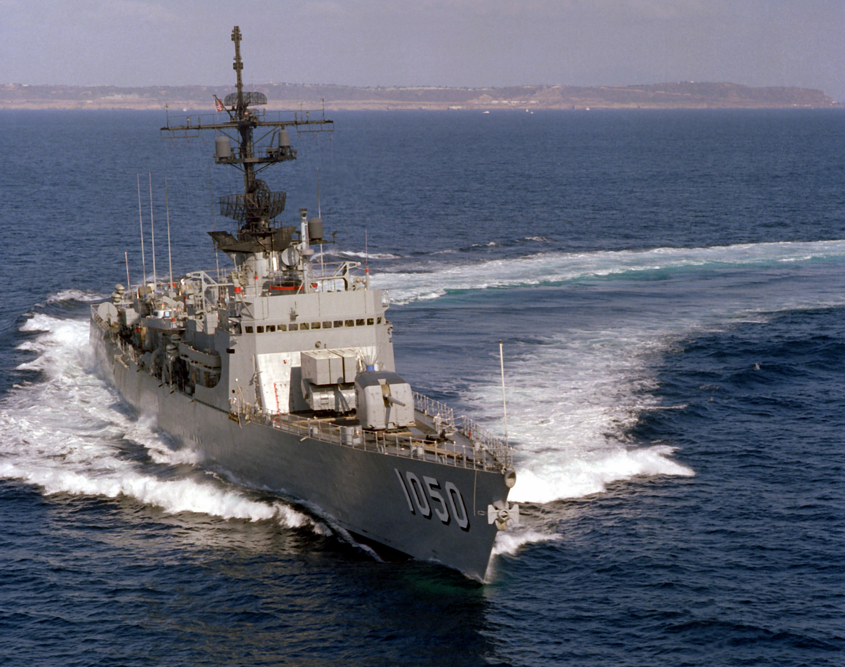 The U.S. Navy frigate USS Albert David (FF-1050) underway near San Diego, California (USA), in 1977.